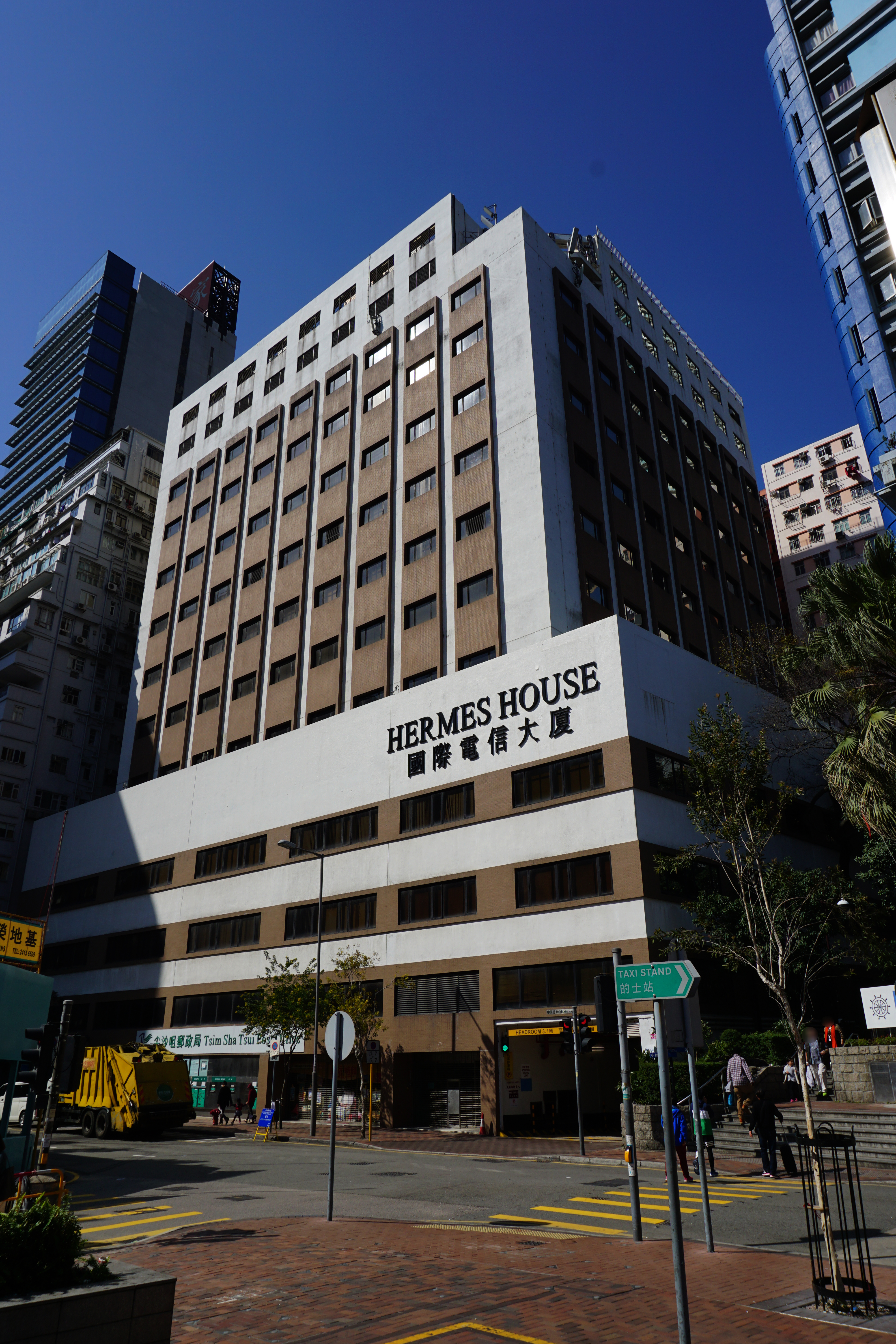 Hermes House in Tsim Sha Tsui, Hong Kong.